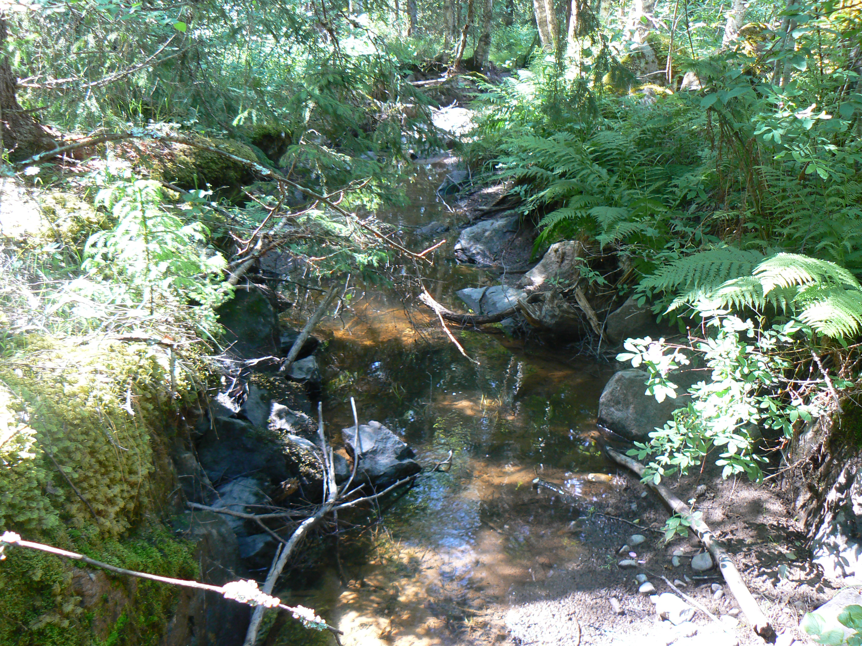 Trostbäcken, little flow of water in the forrest east of Falun, Sweden.